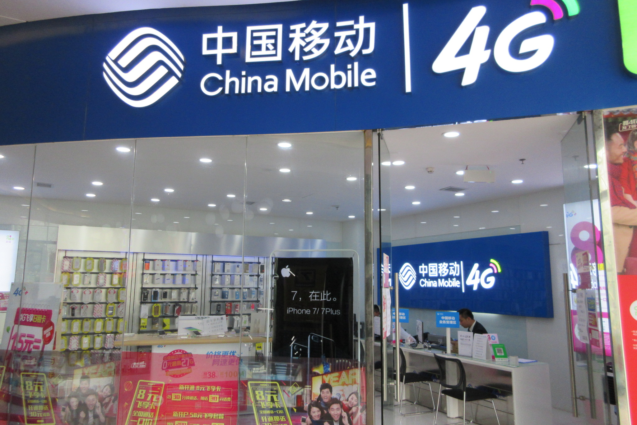 SZ 深圳北站 Shenzhen North Station 東廣場 East Square 繽果空間購物中心 Bingo Space Shopping Center shop sign in Feb 2017